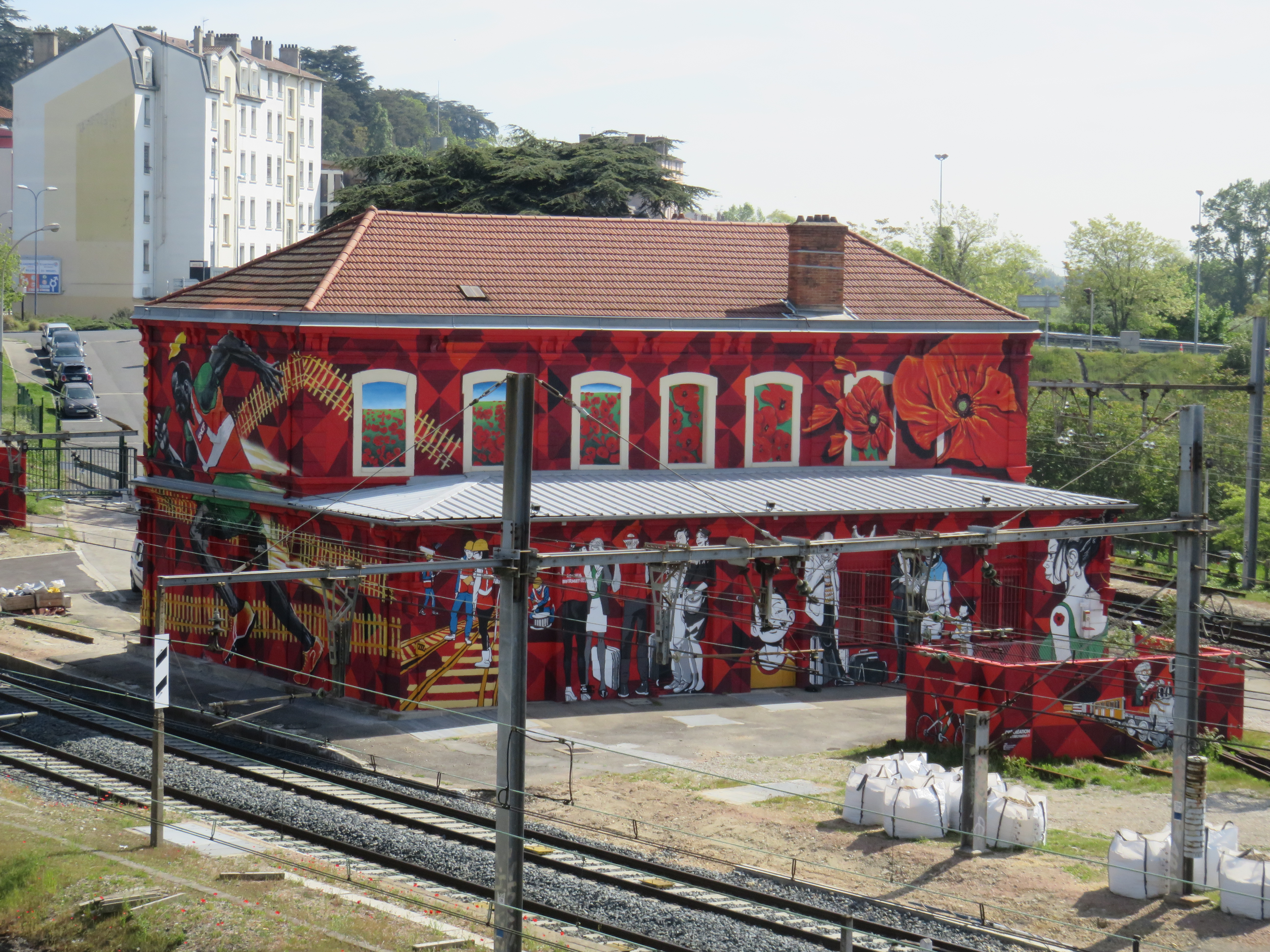 The passenger building of the former train station of Lyon-Saint-Clair (Caluire-et-Cuire, France), on May 7, 2019.